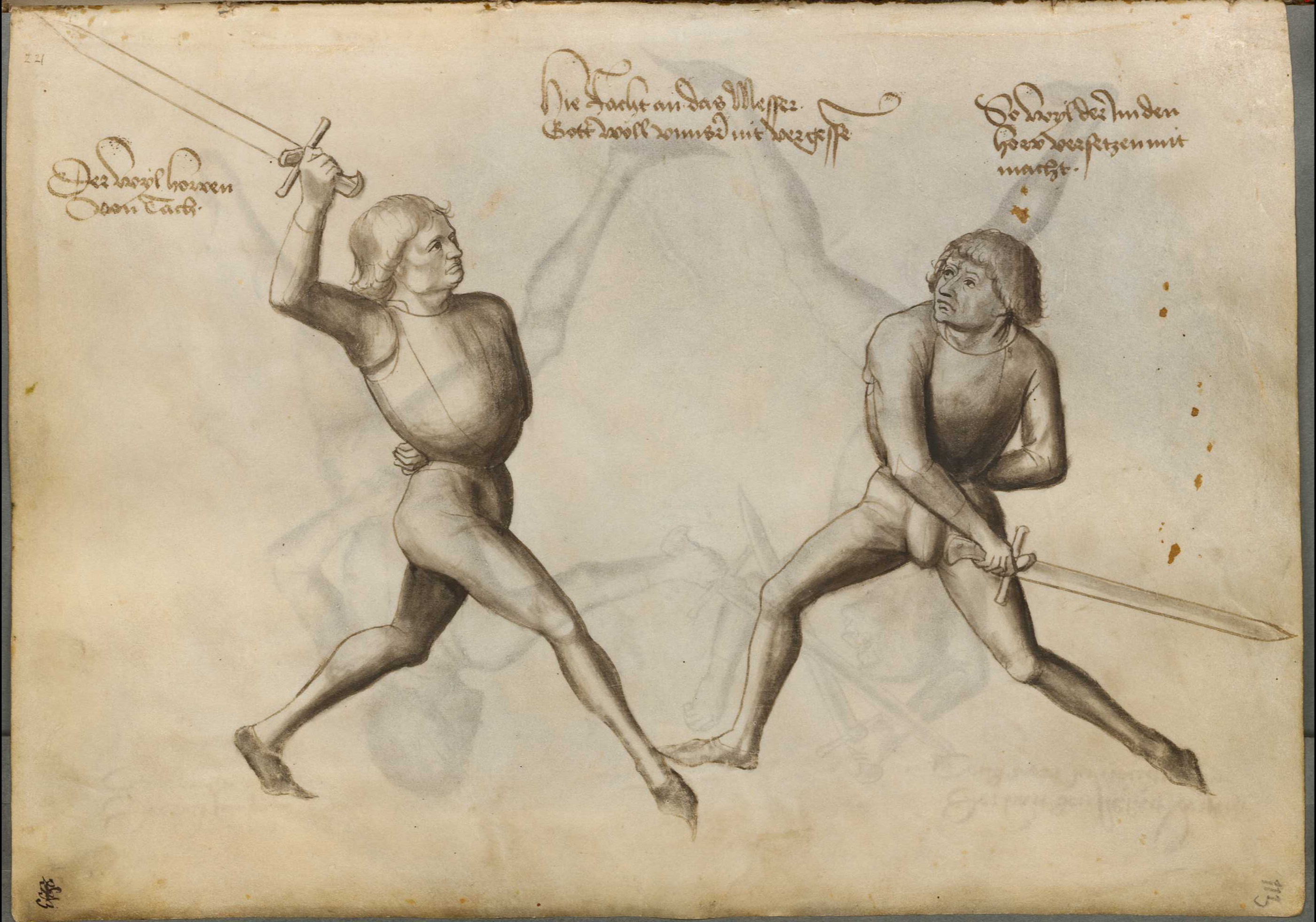 This is a scan of the historical Fechtbuch ('fencing book') by German fencing master Hans Talhoffer.